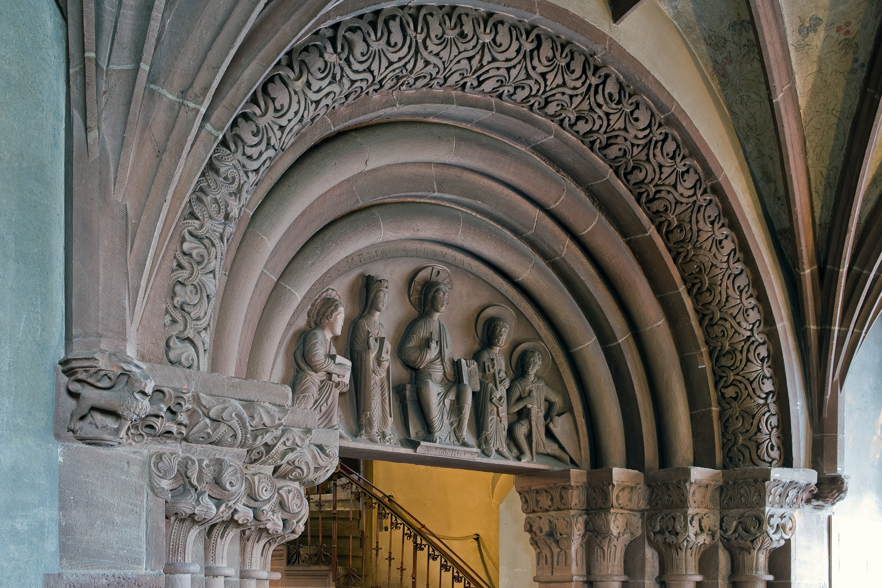 Frankfurt on the Main: St Leonard's Church, detail of the romanesque Engelbertusportal (Portal of Engelbertus) in the northern aisle as seen from the northeast